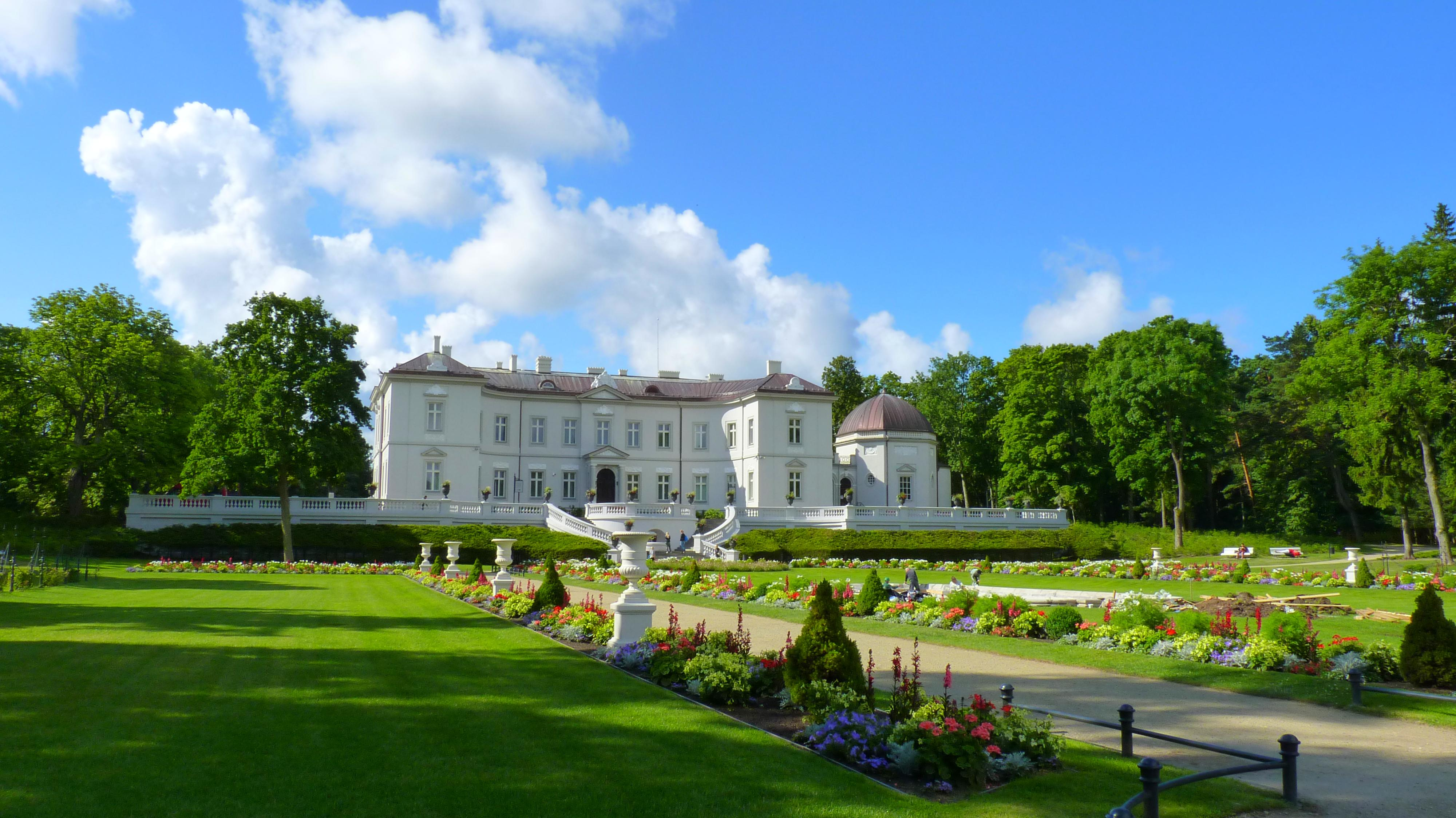 Palanga Amber Museum during summer in Palanga, Lithuania.